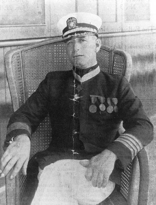 Lieutenant Commander George H. Rose, United States Naval Reserve, (1880-1932). Halftone reproduction of a photograph, published in "Army and Navy Legion of Valor of the U.S." Seaman George H. Rose received the Medal of Honor for his "meritorious conduct" during the China Relief Expedition as part of the landing force from Newark in June 1900. He is pictured here as a Lieutenant Commander in the Merchant Marine Naval Reserve. Courtesy of Donald K. Smith, David Taylor Naval Ship Research & Development Center, Bethesda, Maryland.